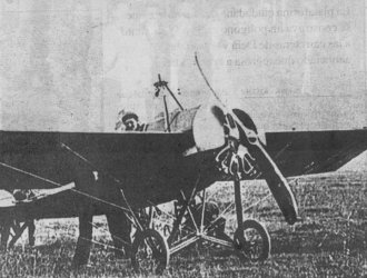 On 2 July 1916, Salvador Medilla flew his "Monocoque II" from mainland Spain to Son Bonet, near La Palma, in about 140 minutes. It was the first flight from the mainland to Mallorca, rewarded with a 5,000 Ps prize. The photo shows his arrival. Summary Bildbeschreibung: erste Landung Son Bonet 1916 Quelle: eigenes Archiv Fotograf: unbekannt Datum: Juli 1916 Licensing